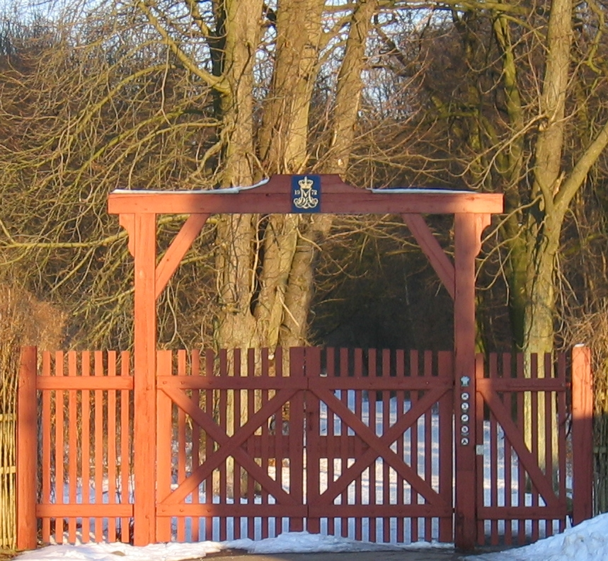 Vesthus port, Jægersborg Deer Park, Denmark.